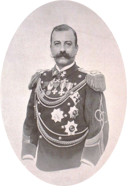 Vittorio Signorile member of the Italian delegation for the reforms in Macedonia.